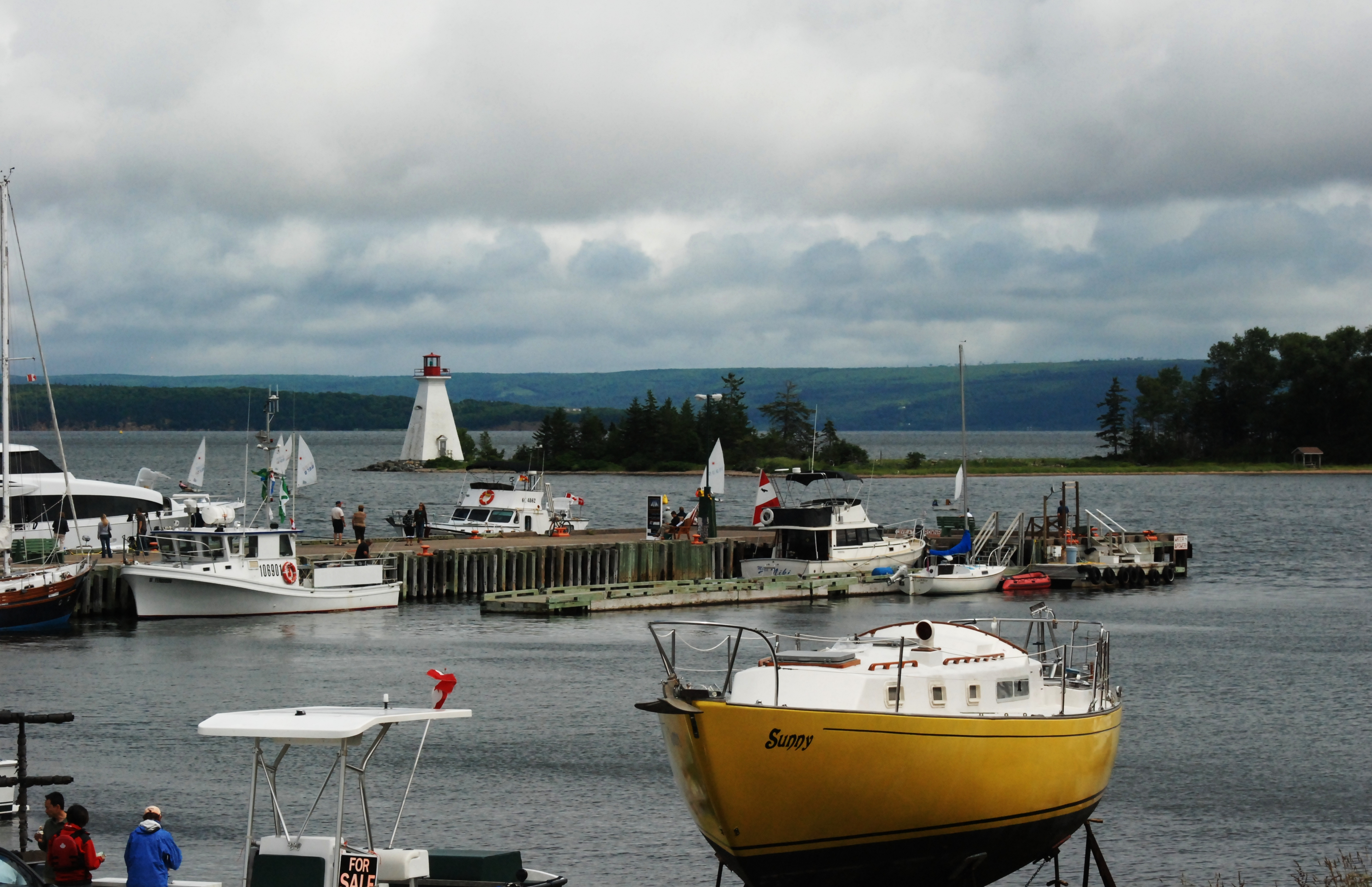 Baddeck - Harbour with Lighthouse, Nova Scotia, Canada, Aug 2008